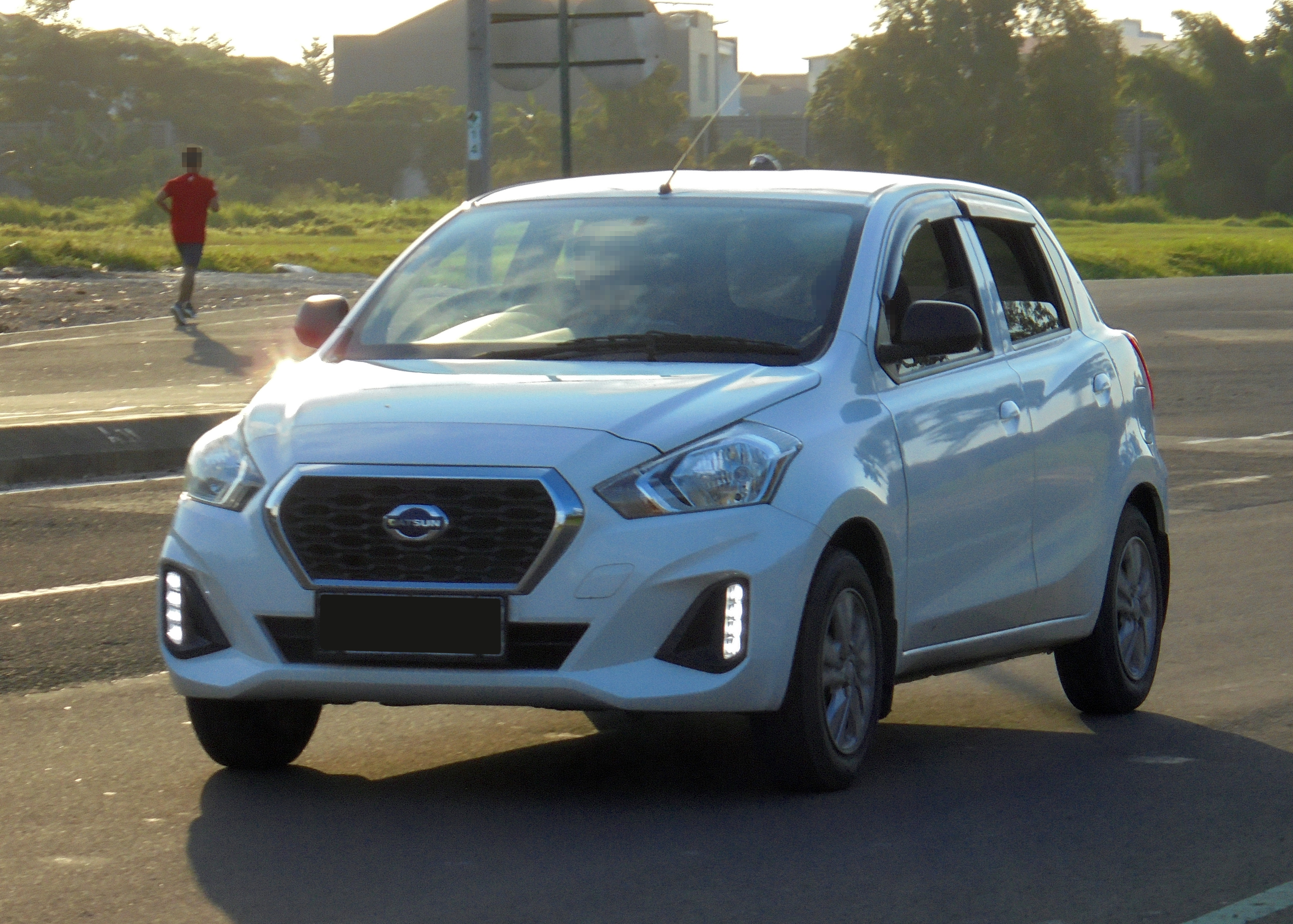 2019 Datsun Go Panca A 1.2 (AD0)